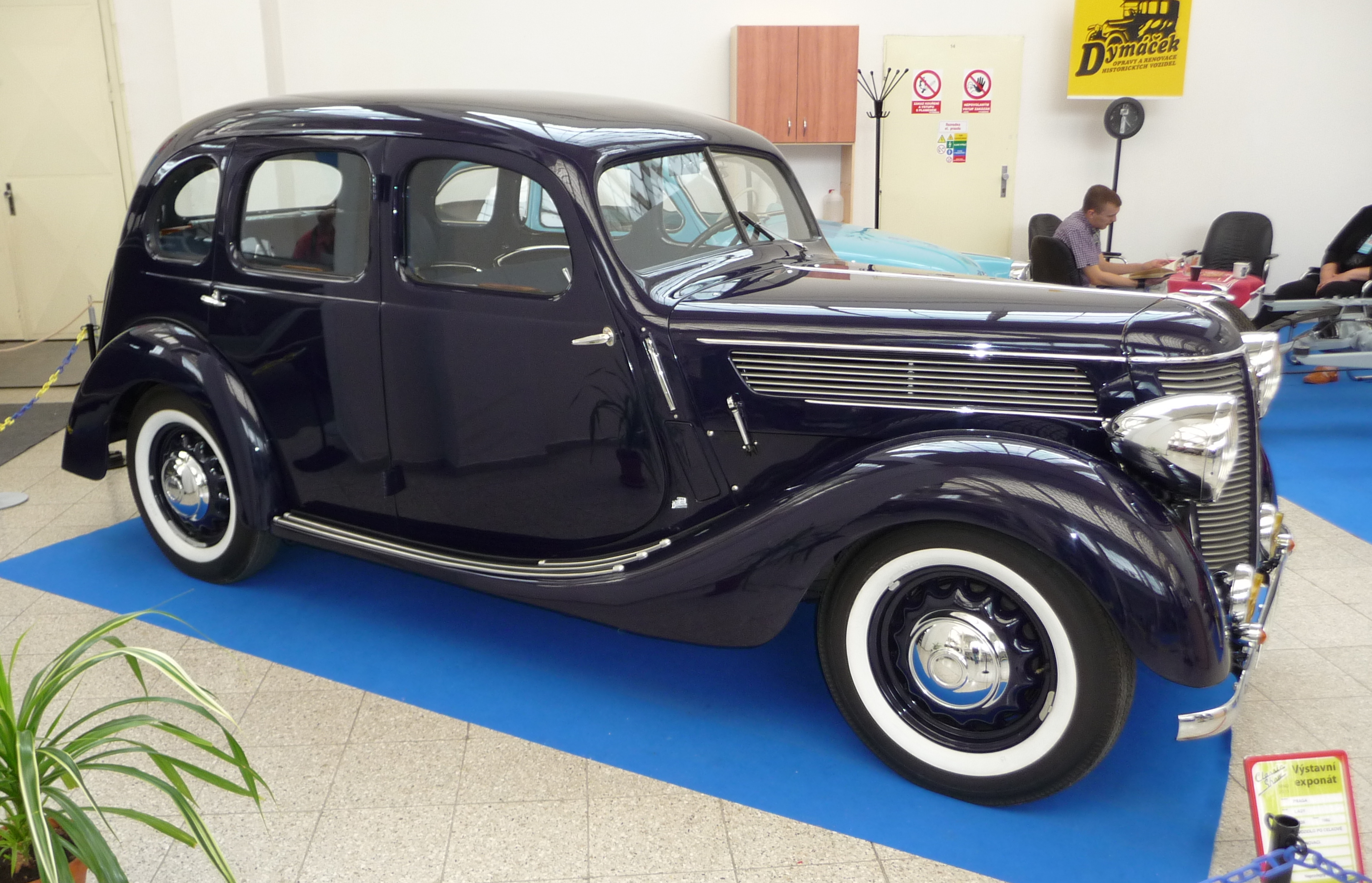 Praga Lady, year 1938, Classic Show Brno 2011, The Brno Exhibition Grounds -10 -5 -3 -2 ◄ ► +2 +3 +5 +10